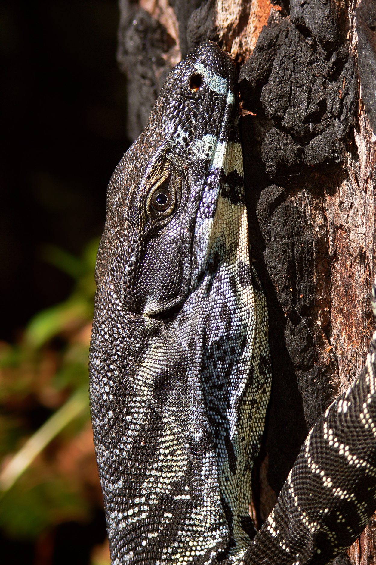 A goanna Varanus varius also known as Lace monitor, taken in South-eastern Australia.